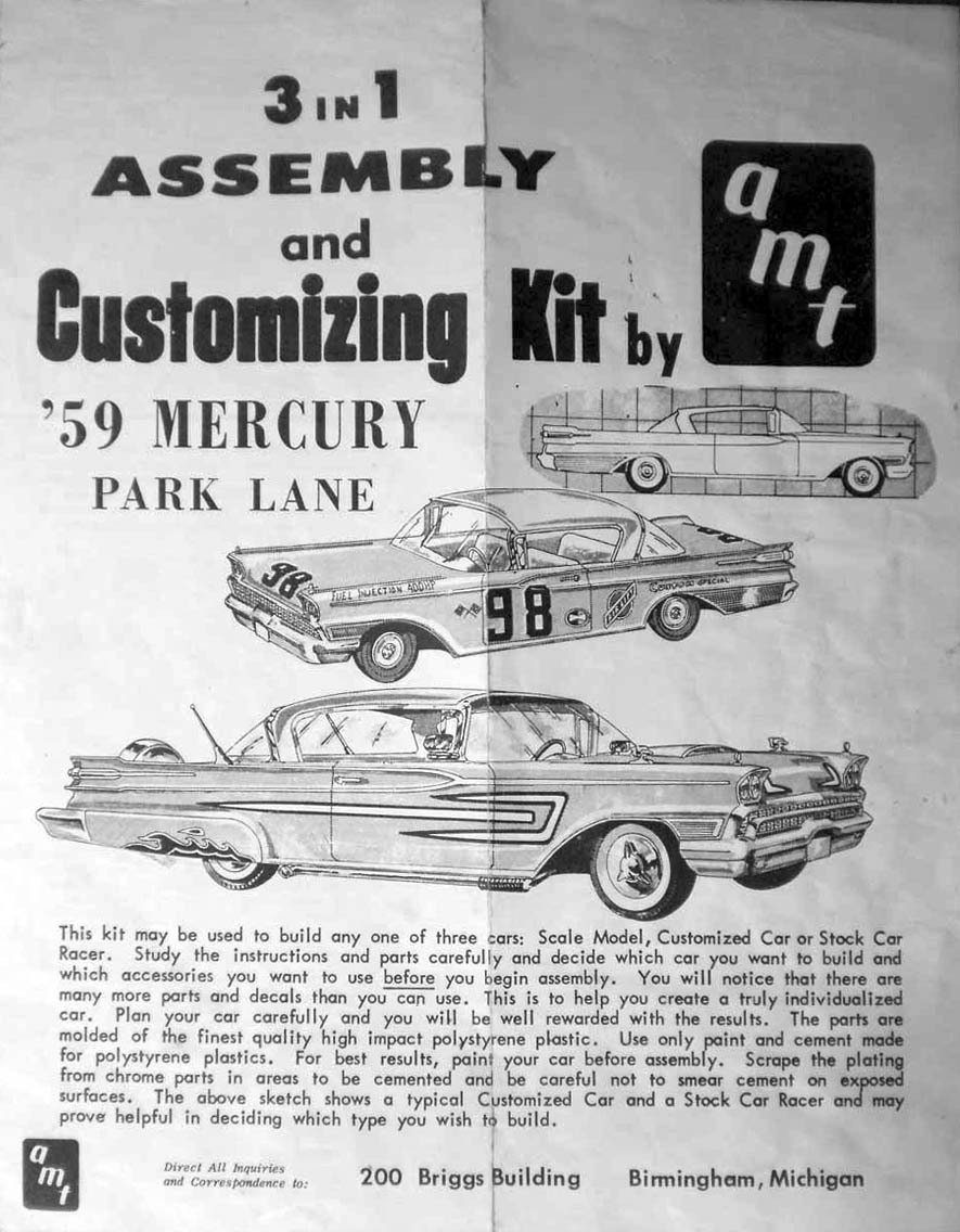 AMT 1959 Mercury 3 in 1 kit instructions.